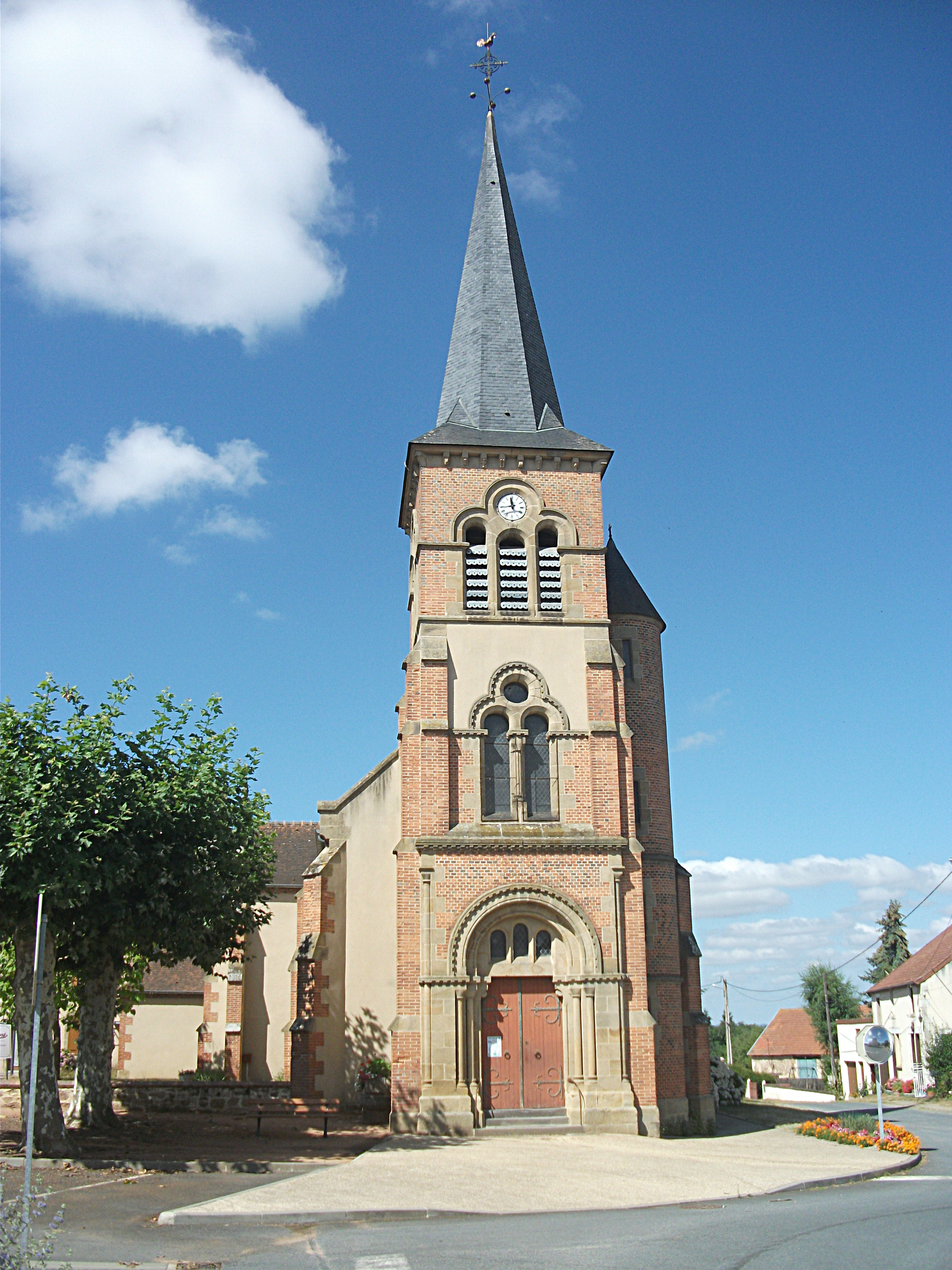 Church of Verneix, Allier, Auvergne-Rhône-Alpes, France. [16705]